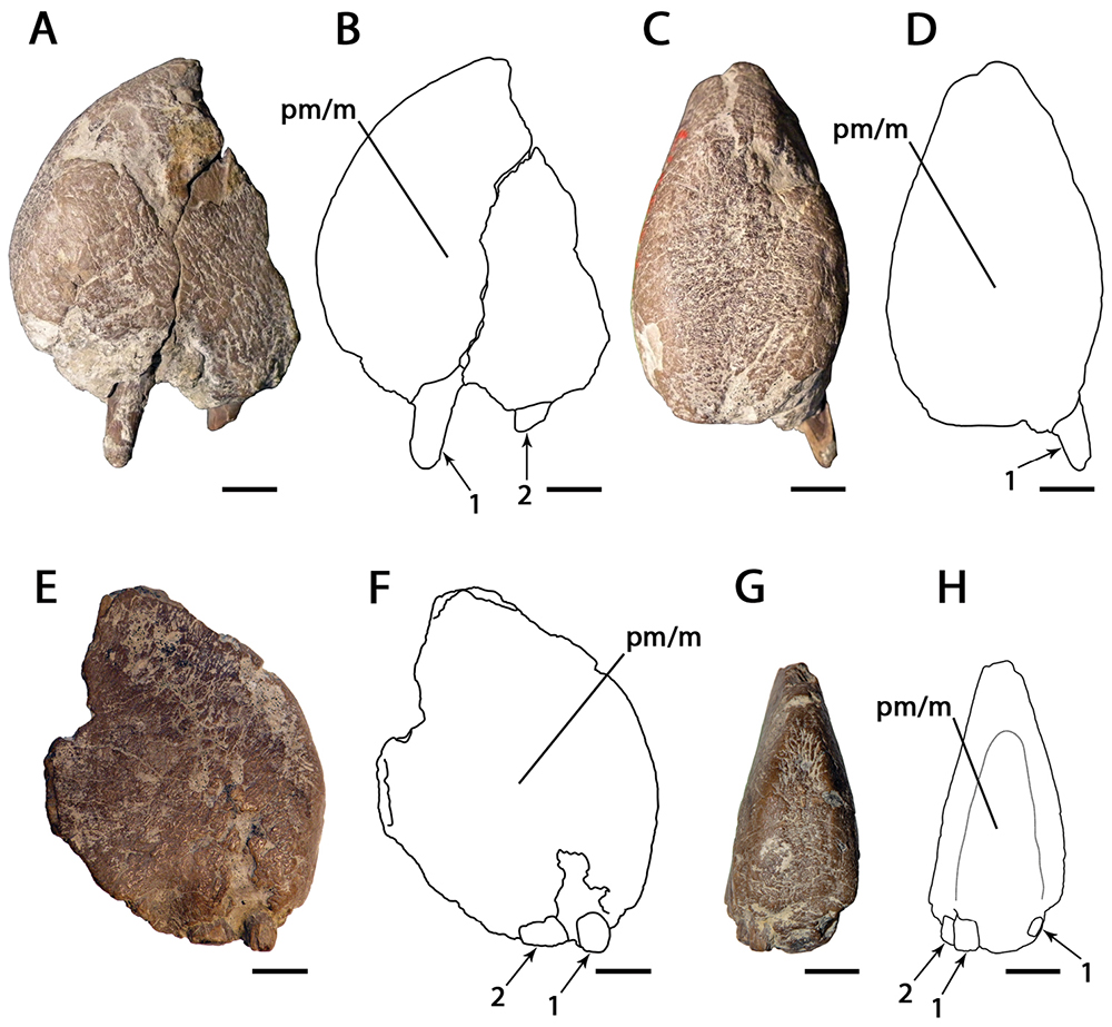 Ornithocheirus simus. A–D referred specimen MANCH L10832 (Albian, Cambridge Greensand), anterior part of the rostrum A left lateral view B respective line drawing C anterior view D respective line drawing E–H referred specimen NHMUK PV 35412 (Albian, Cambridge Greensand), anterior part of the rostrum E right lateral view F respective line drawing G anterior view H respective line drawing. Abbreviations: m – maxillae, pm – premaxillae. Arrows and numbers indicate alveoli or teeth and their respective position. Scale bar = 10 mm. Photos E and G courtesy of The Natural History Museum.